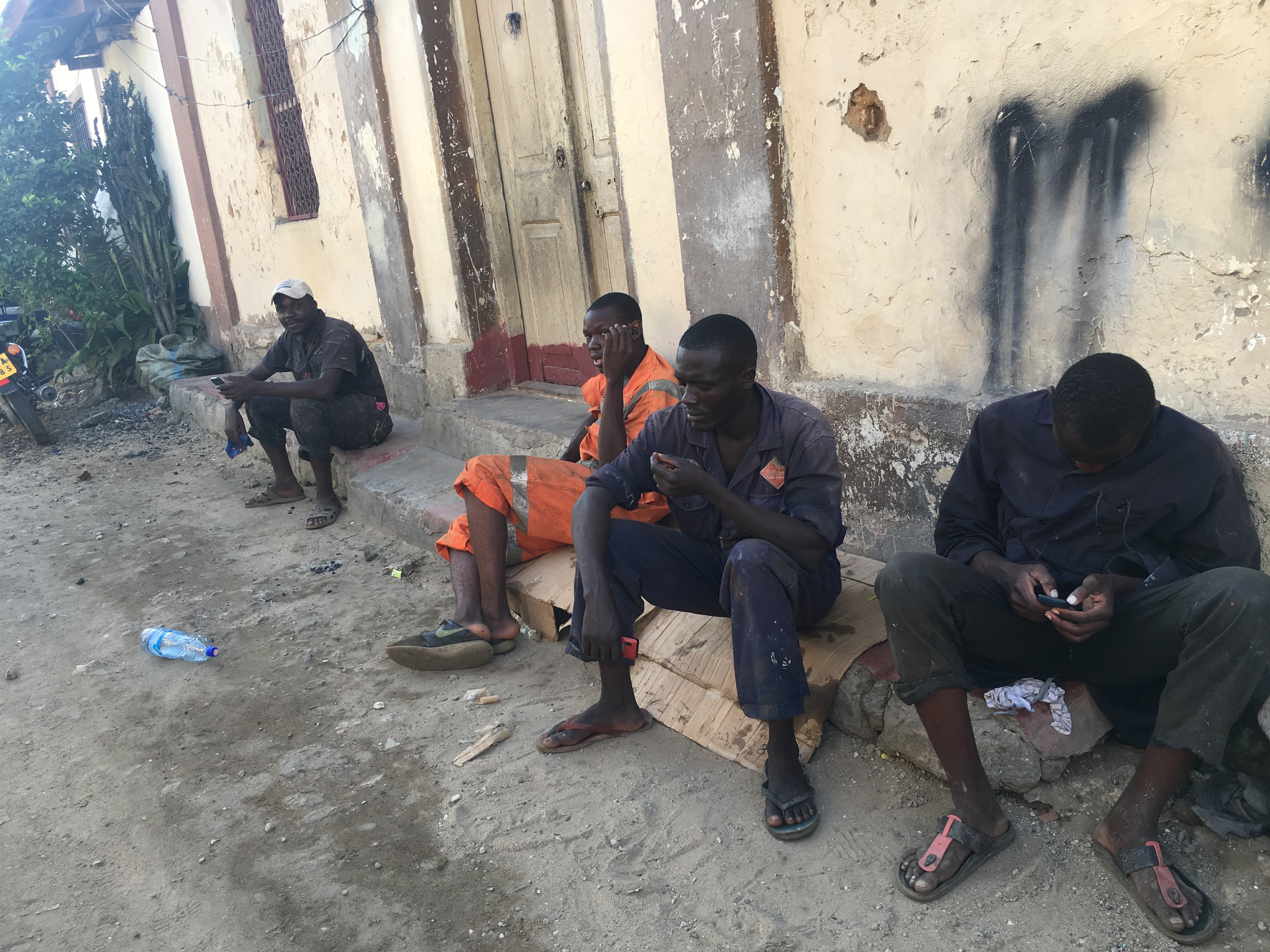 This is an image with the theme "Africa on the Move or Transport" from: Kenya